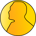 Image of the Nobel prize medal without word "Nobel"